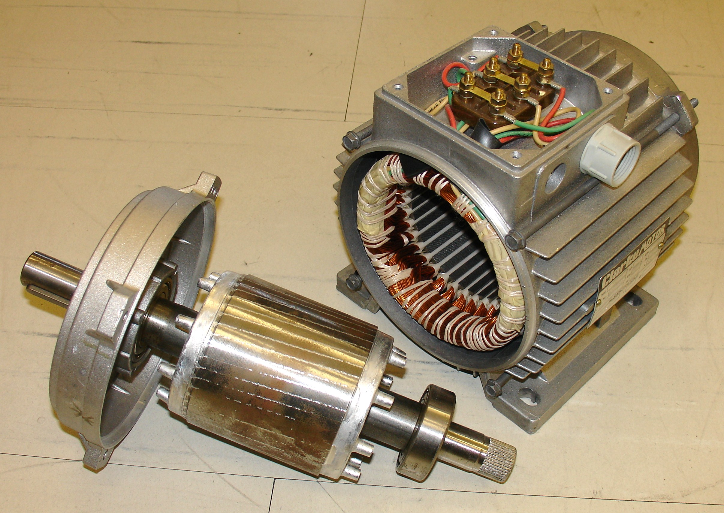 Stator and rotor of a three-phase induction motor: 0.75 kW, 1420 rpm, 50 Hz, 230-400 V AC, 3.4-2.0 A